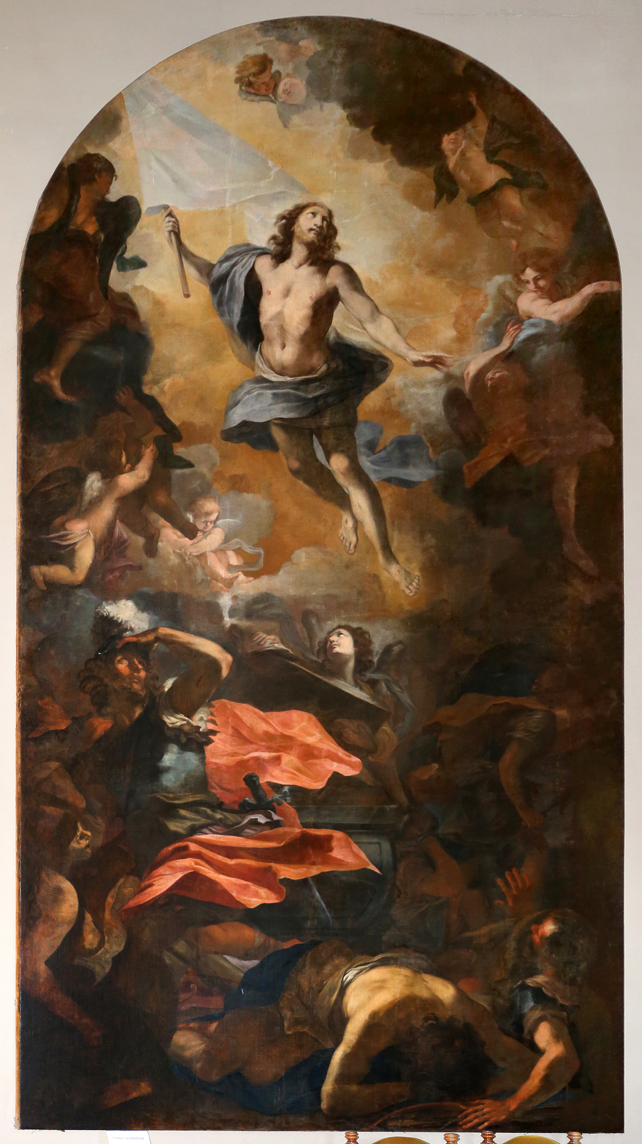 Basilica of San Francesco (Siena)